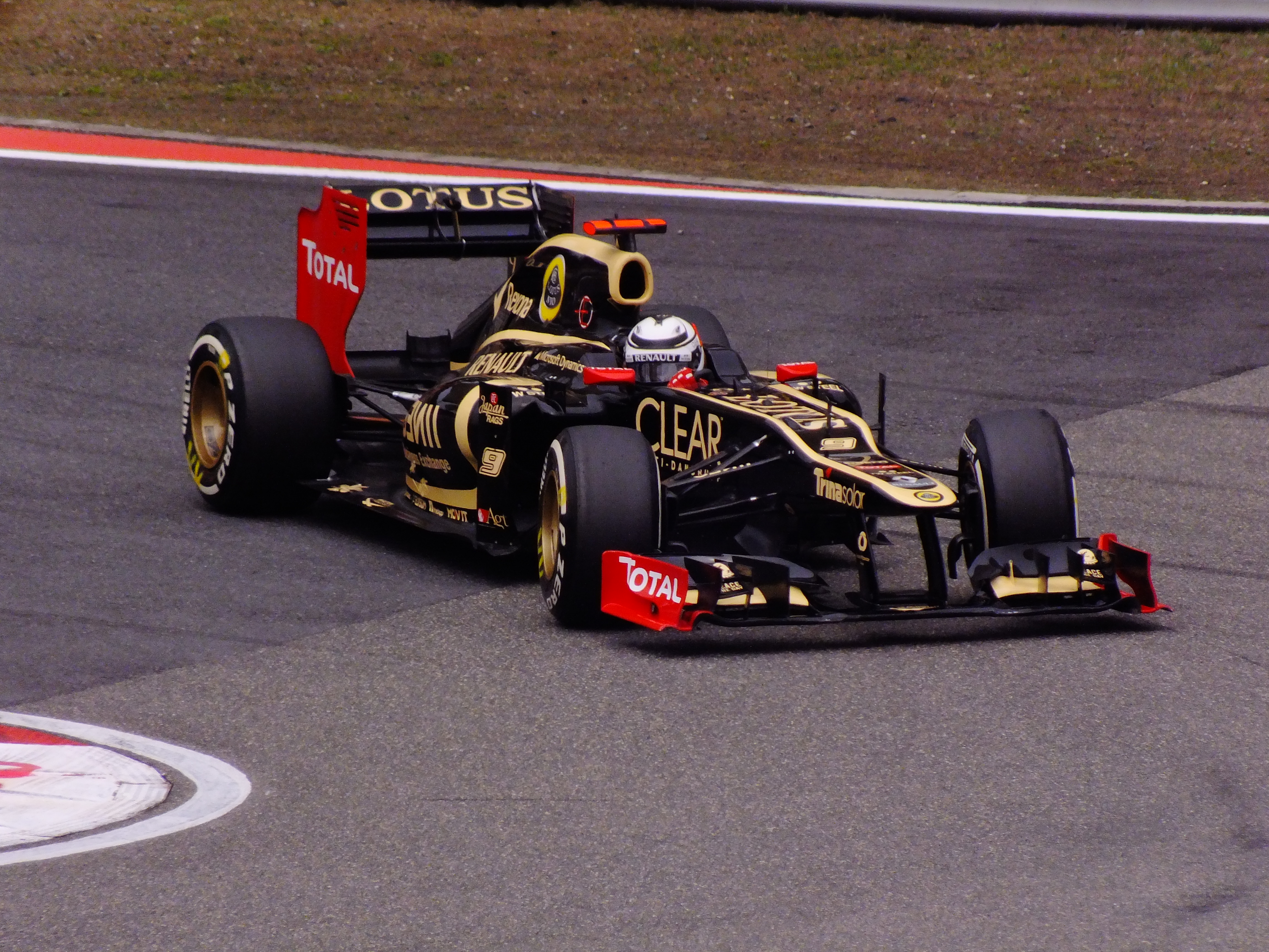 Kimi Räikönnen at the 2012 Chinese Grand Prix